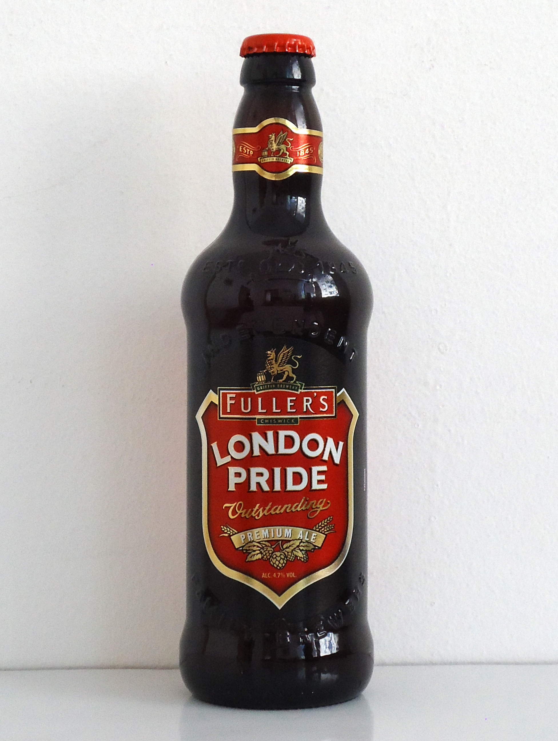 London Pride - premium ale